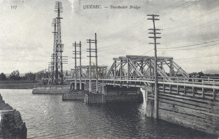 Dorchester Bridge, Québec (Quebec, Canada) Ink on paper mounted on card - Collotype 9 x 14 cm